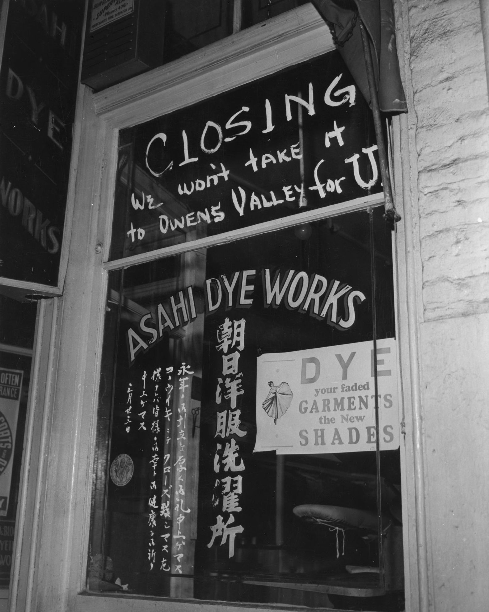 Public Domain. Suggested credit: Library of Congress via pingnews. Additional information from source: TITLE: Los Angeles, Calif., April 1942 - A shop just before Japanese were evacuated from "Little Tokyo" CALL NUMBER: LOT 1801 [item] [P&P] Check for an online group record (may link to related items) REPRODUCTION NUMBER: LC-DIG-ppmsc-09964 (digital file from original) No known restrictions on publication. SUMMARY: Shop window of Asahi Dye Works with sign reading: "Closing, we won't take it to Owens Valley for U." MEDIUM: 1 photographic print. CREATED/PUBLISHED: 1942 April. CREATOR: Albers, Clem, phtographer. NOTES Typed caption on label that is crossed out in pencil reads: War migration of Japanese. Caption reads: Last call to pick up suits and gowns before shades were pulled down in "Little Tokyo," in Los Angeles, prior to evacuation of residents of Japanese ancestry. Many were assigned to Manzanar, War Relocation Authority Center, in Owens Valley, Calif. Title from item. No USE6 neg. No. D-5064. In pencil on mount: Albers. Office for Emergency Management. SUBJECTS: World War, 1939-1945--Japanese Americans--California--Los Angeles. Japanese Americans--California--Los Angeles--1940-1950. Stores & shops--California--Los Angeles--1940-1950. Windows--California--Los Angeles--1940-1950. FORMAT:Photographic prints 1940-1950. REPOSITORY: Library of Congress Prints and Photographs Division Washington, D.C. 20540 USA DIGITAL ID: (original) ppmsc 09964 CARD #: 2003652584